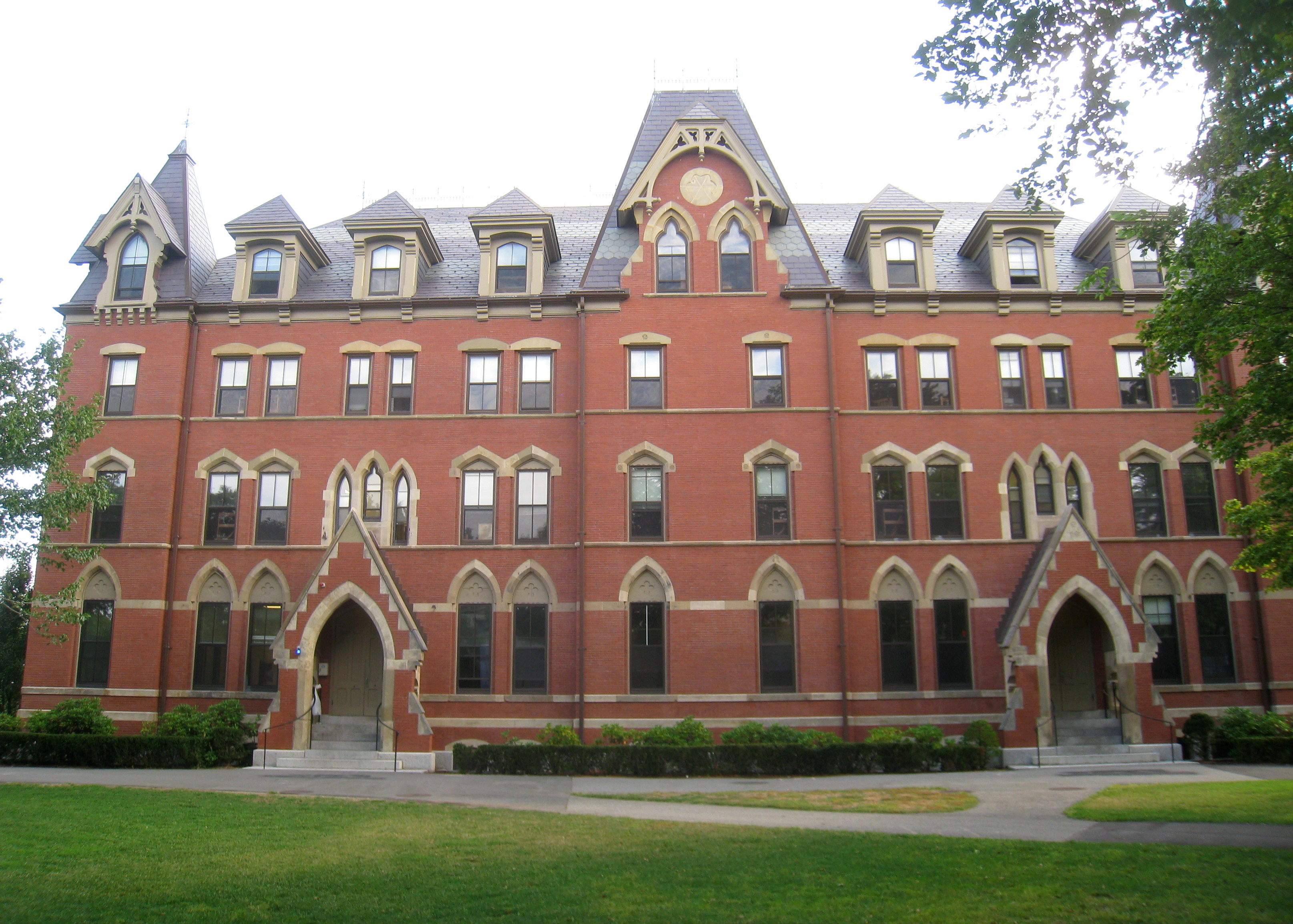 West Hall, at Tufts University, Medford, Massachusetts, USA.